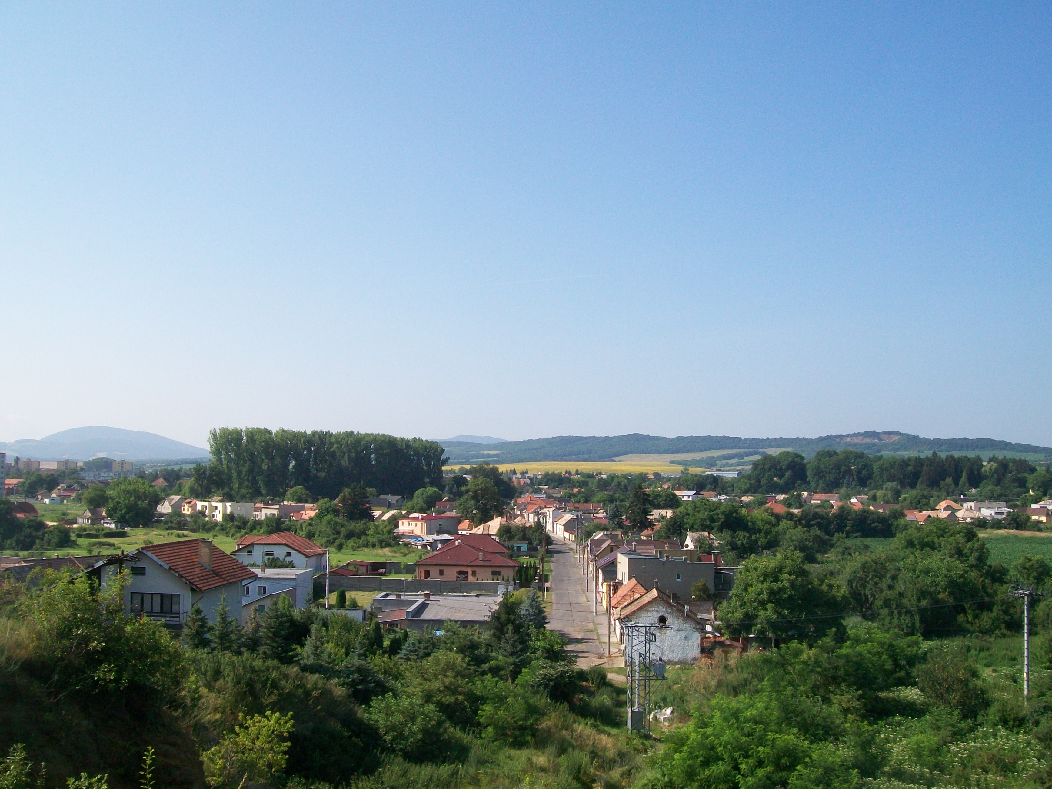 Božena Slančíková Timrava Street in Fiľakovo